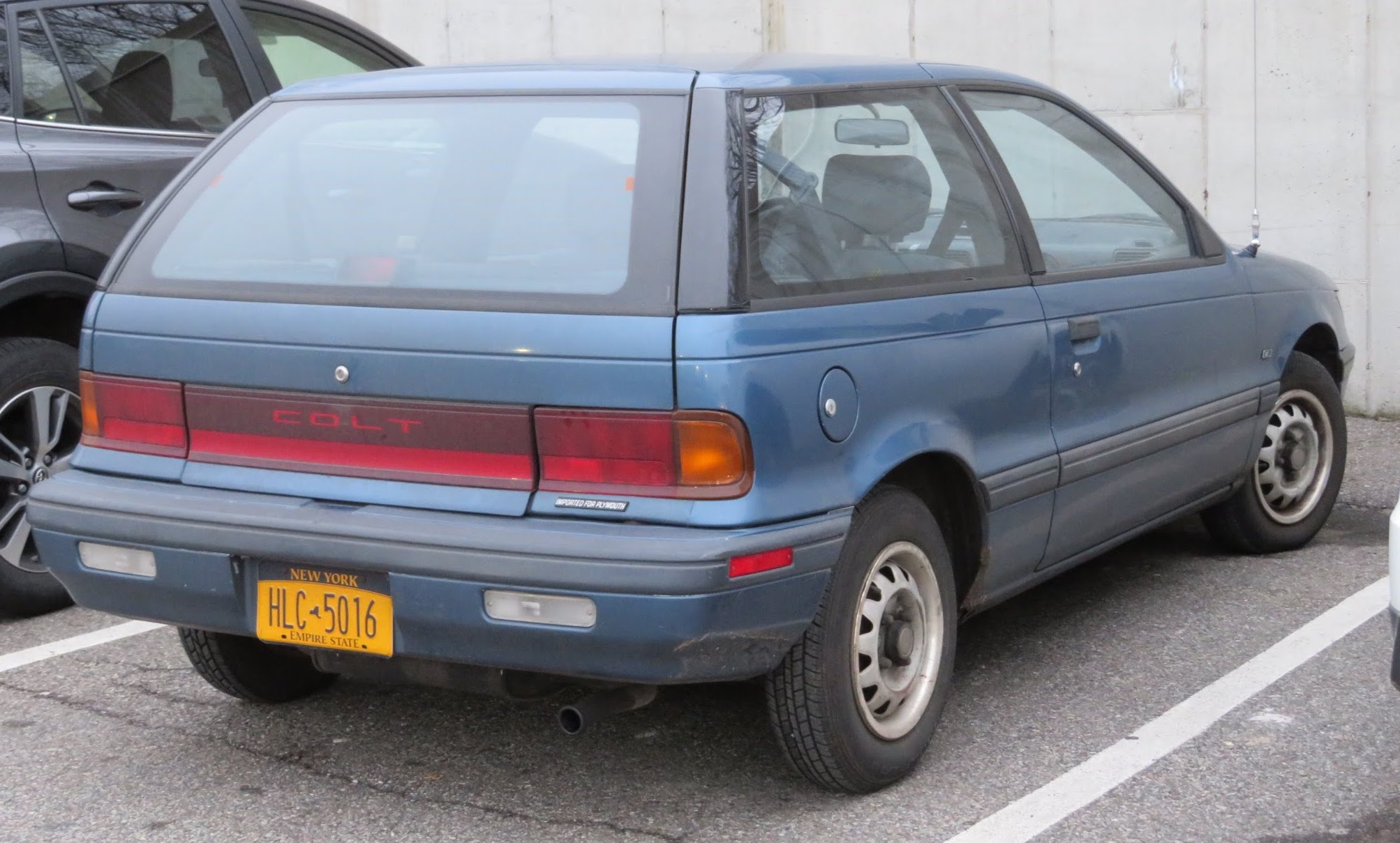 In Bayside, New York